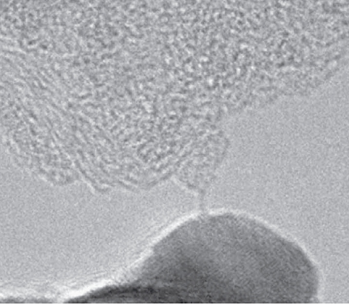 Carbon chain (carbyne) between a Fe contact and a graphitic aggregate